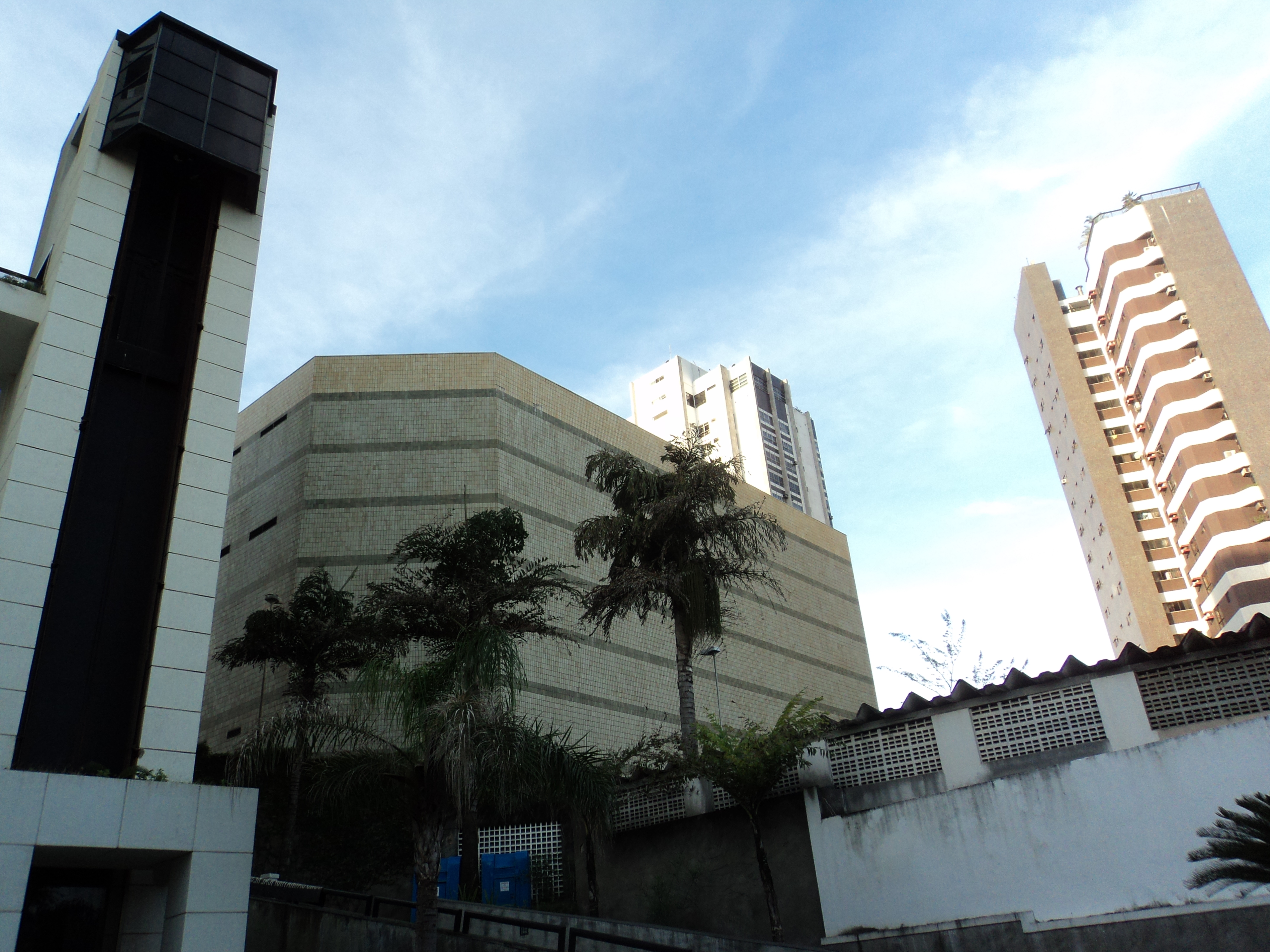 The Shopping Barra. Salvador, Brazil.